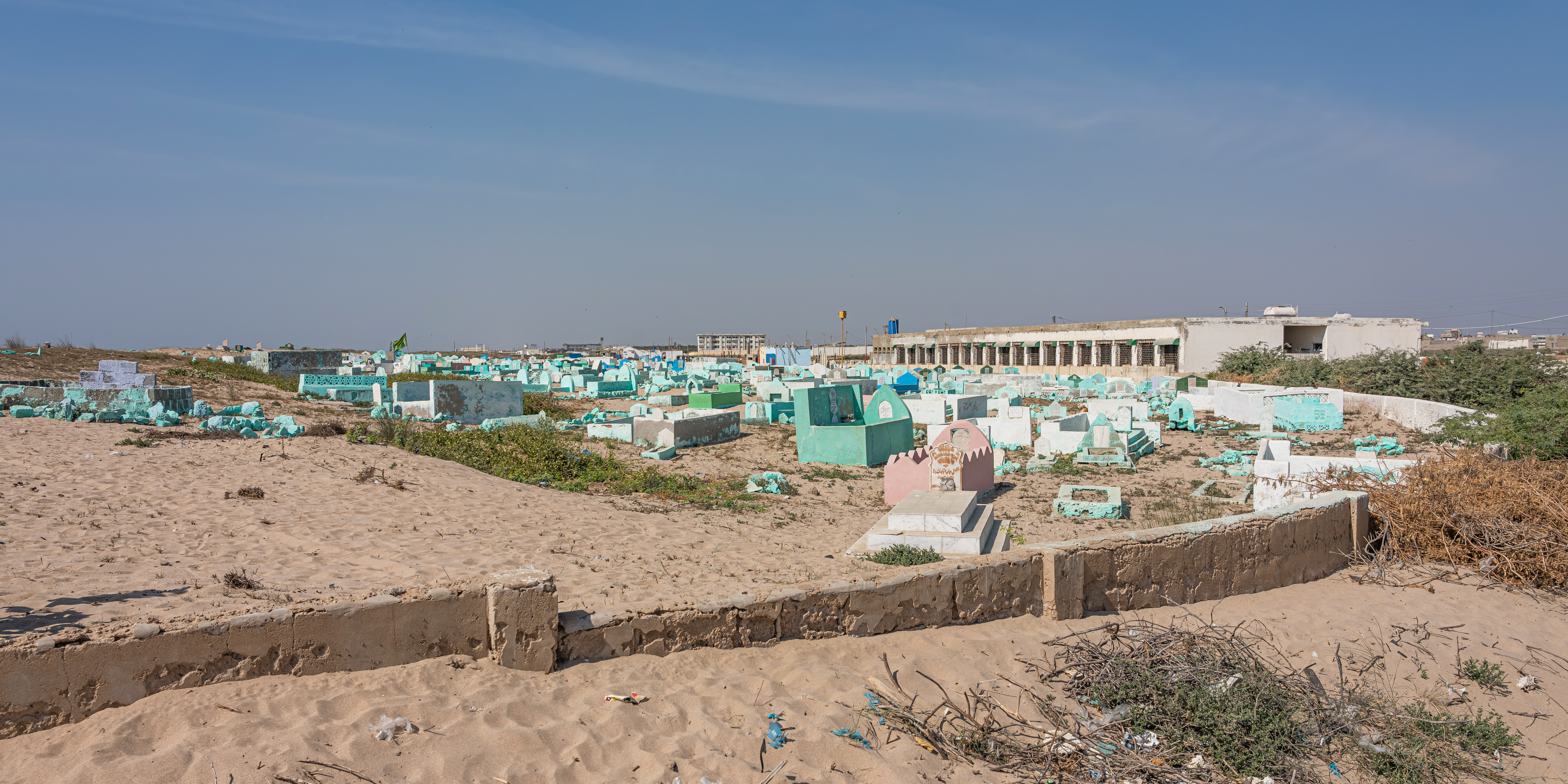 Cemetery of Salehabad village on Manora peninsula near Karachi, Pakistan